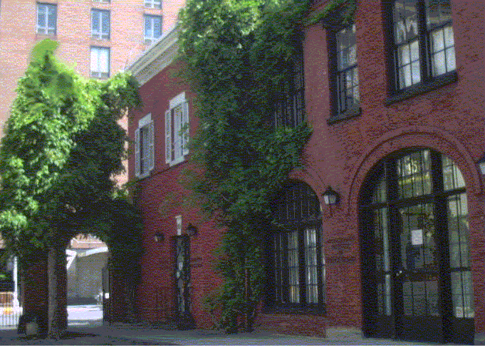 Picture of NYU's la maison francaise. Picture I took myself-use permitted